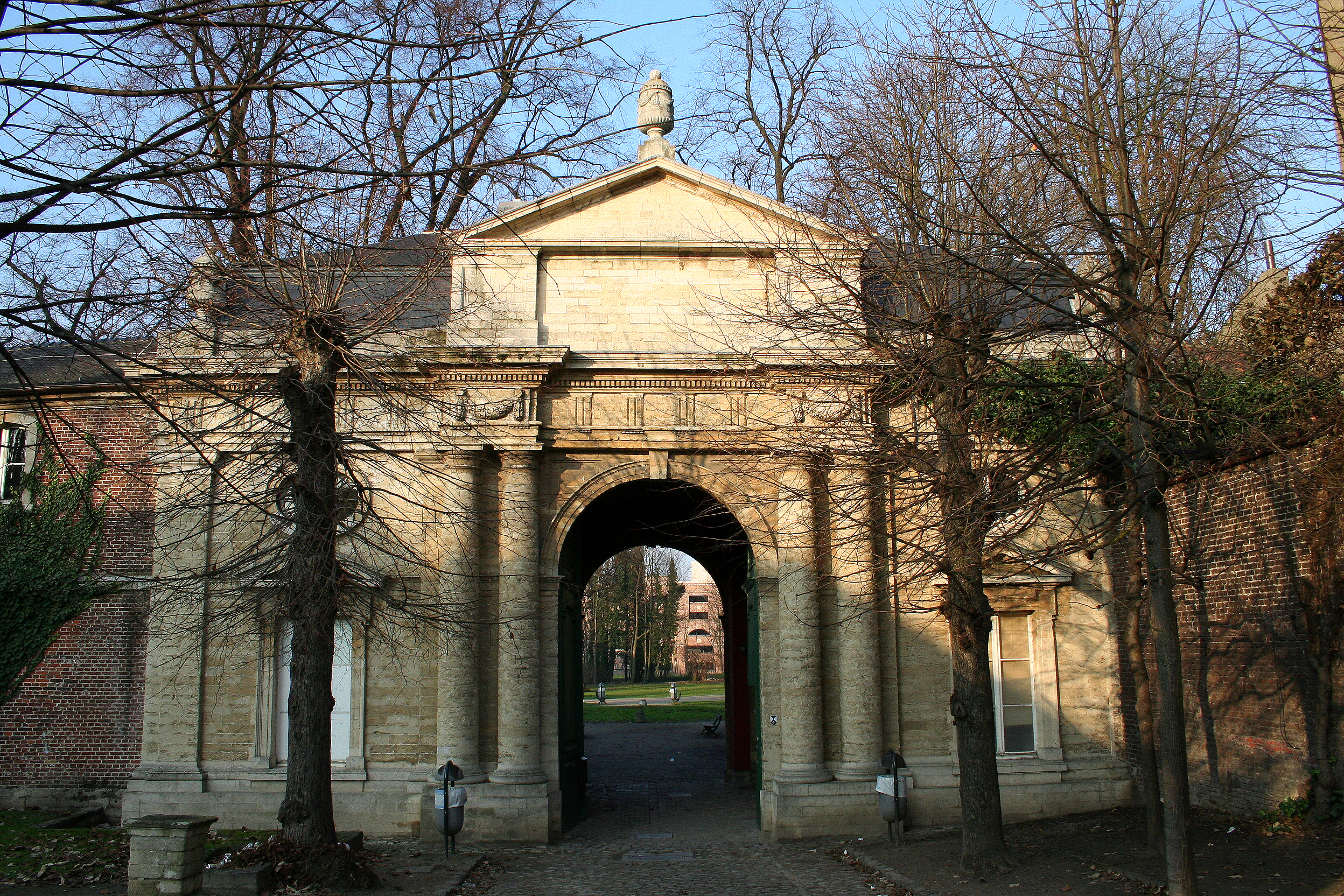 Forest (Belgium), curved wing door of the old Abbey (XII-XVIIIth century).